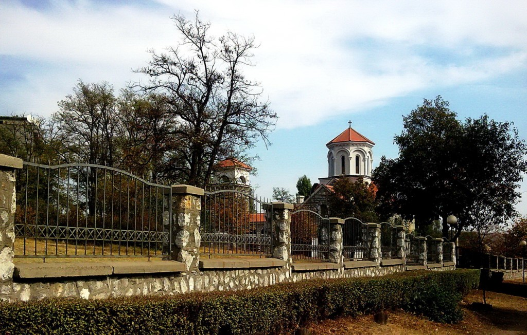 Church of St. Georgie in Bor